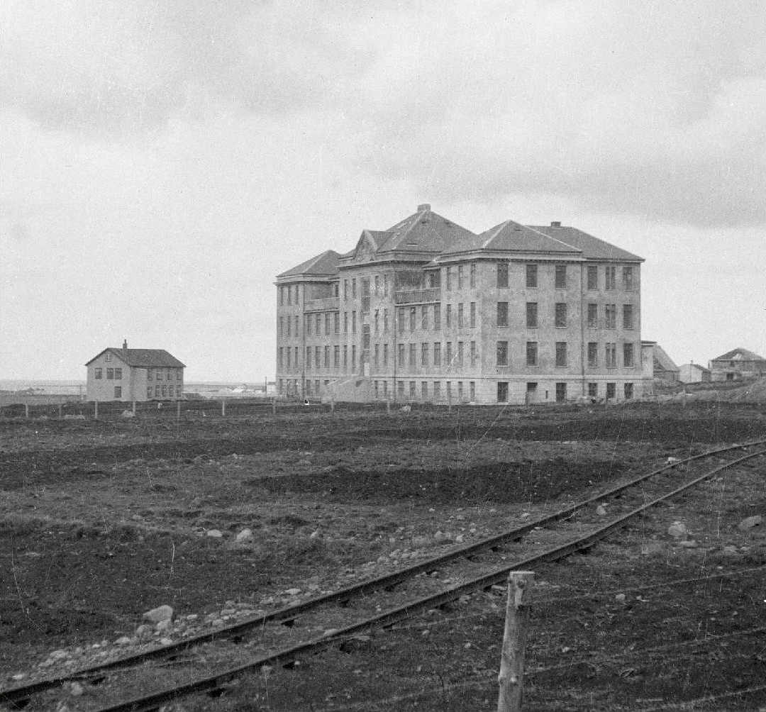 Photograph of Landspítali,the National Hospital in Reykjavík, Iceland, built in 1930.